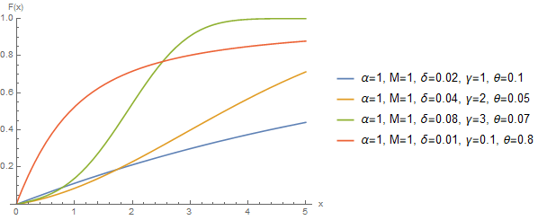 Hyperbolastic Type III Cumulative Density Function with varying parameters.